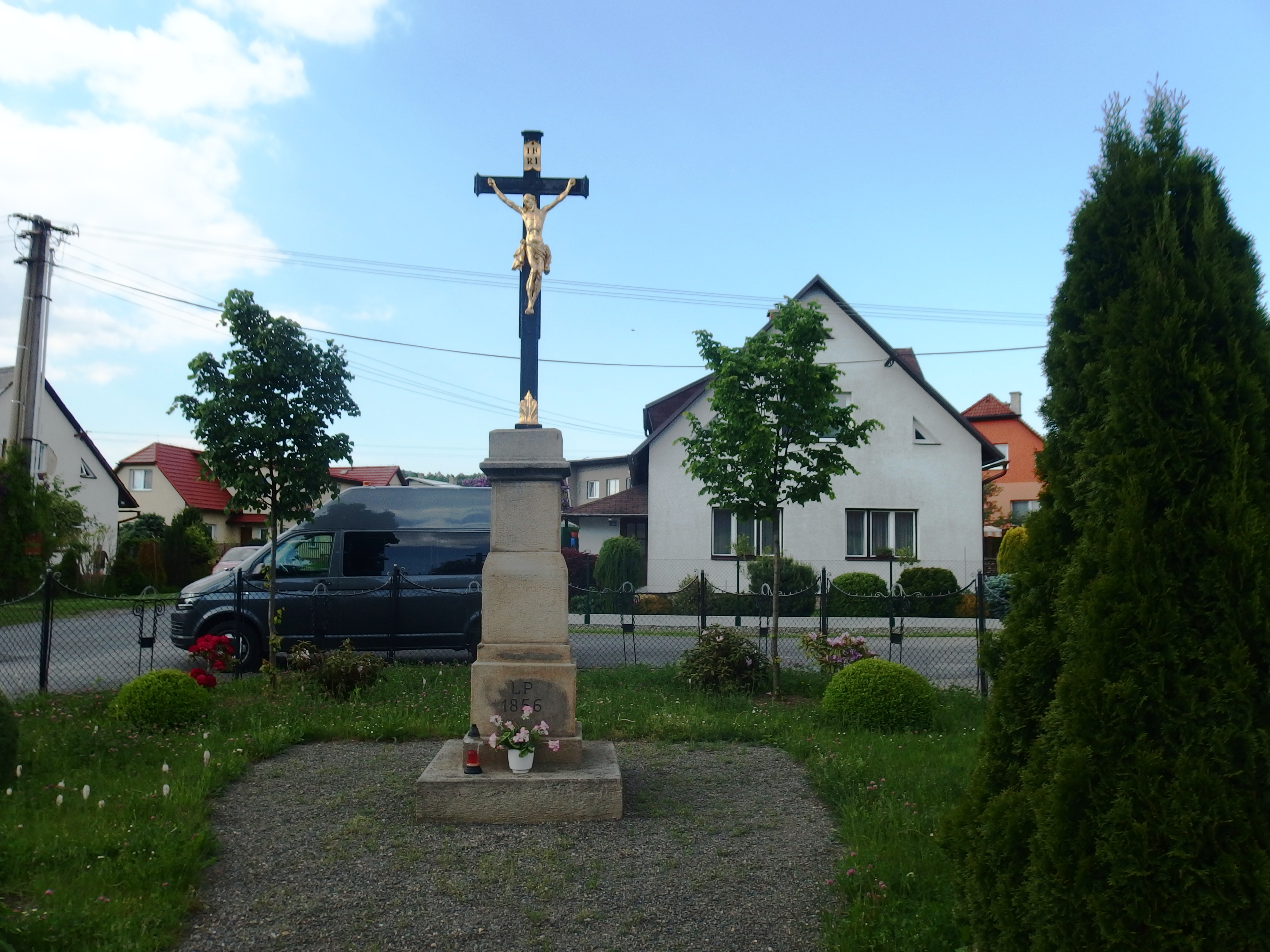 Rožnov pod Radhoštěm, Vsetín District, Czech Republic, part Tylovice.